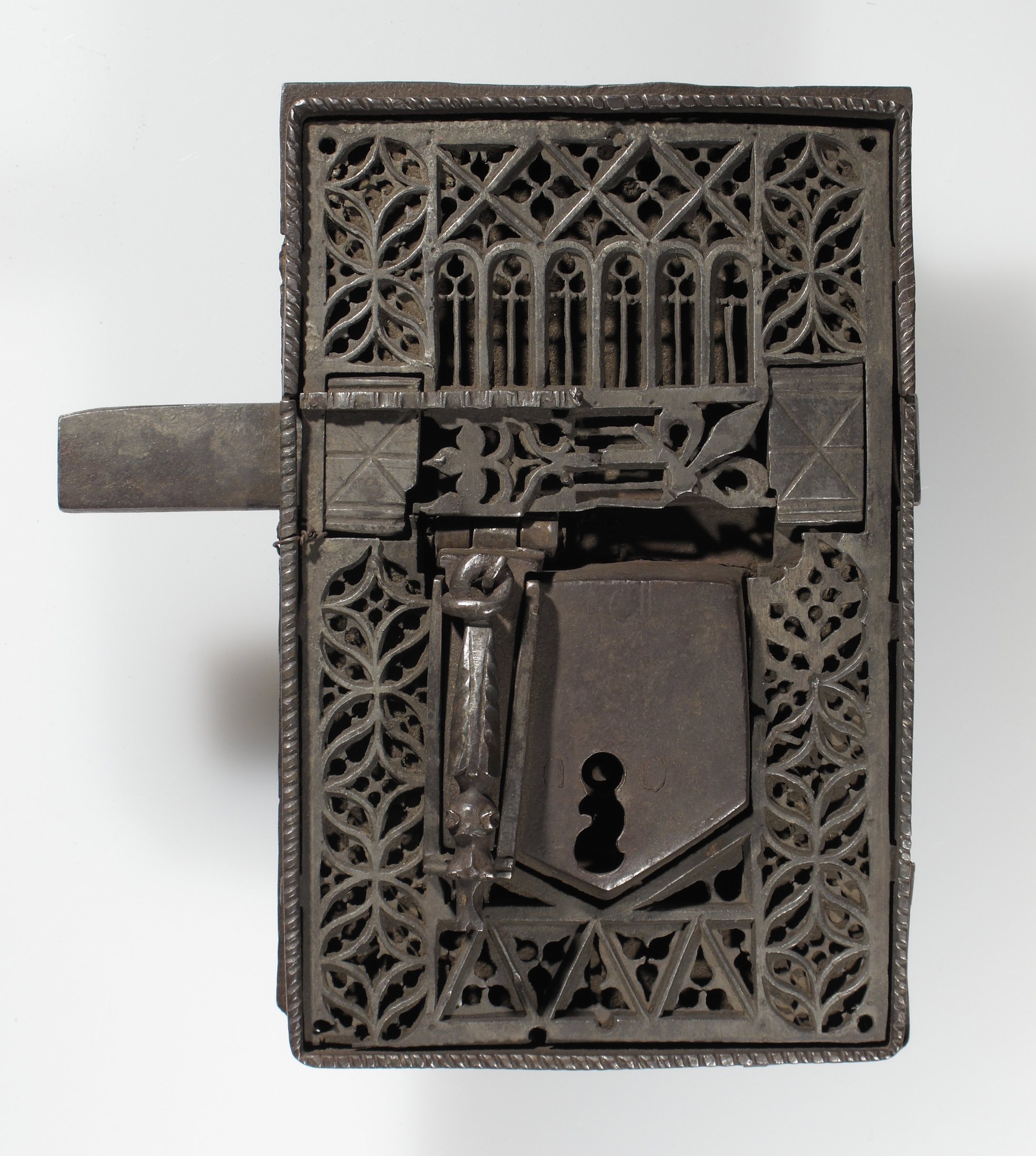 European; Lock; Metalwork-Iron